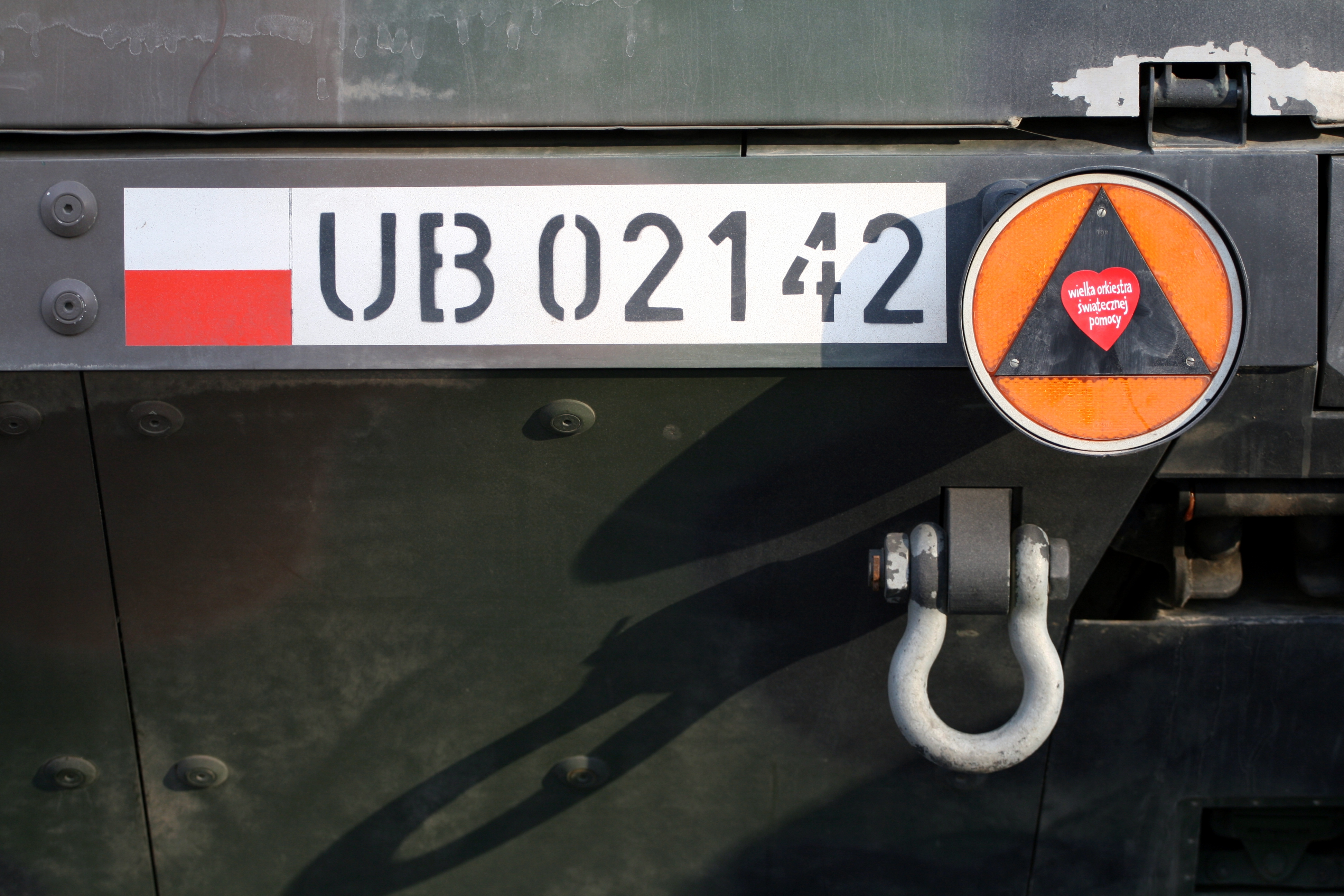 Polish military license plate